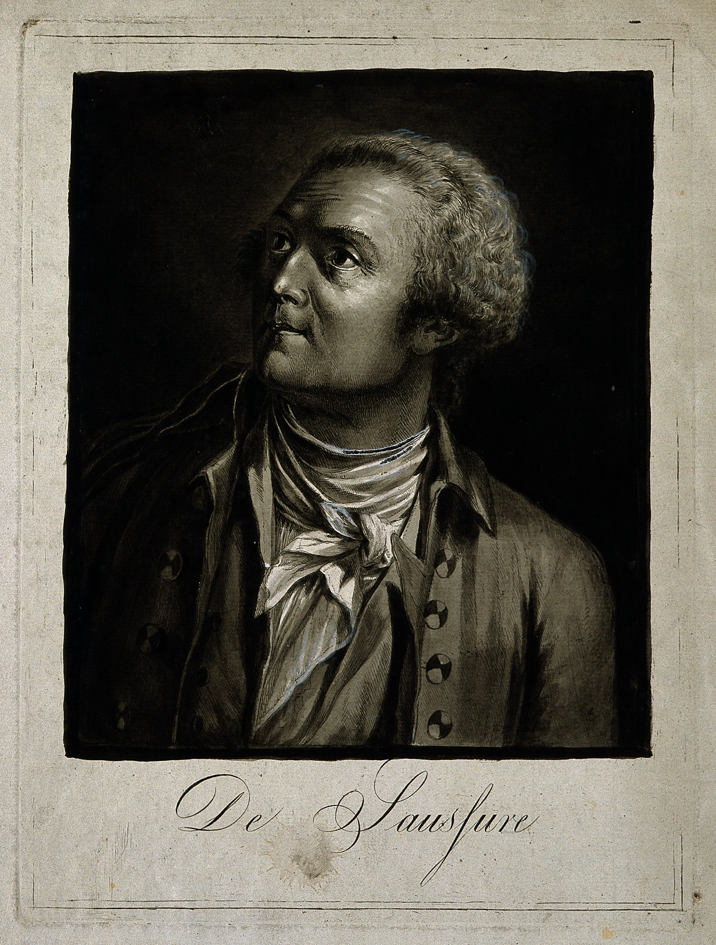 Horace Bénédict de Saussure. Etching with watercolour wash en grisaille after J. P. St Ours. Iconographic Collections Keywords: portrait prints; etchings; Horace Bénédict de Saussure